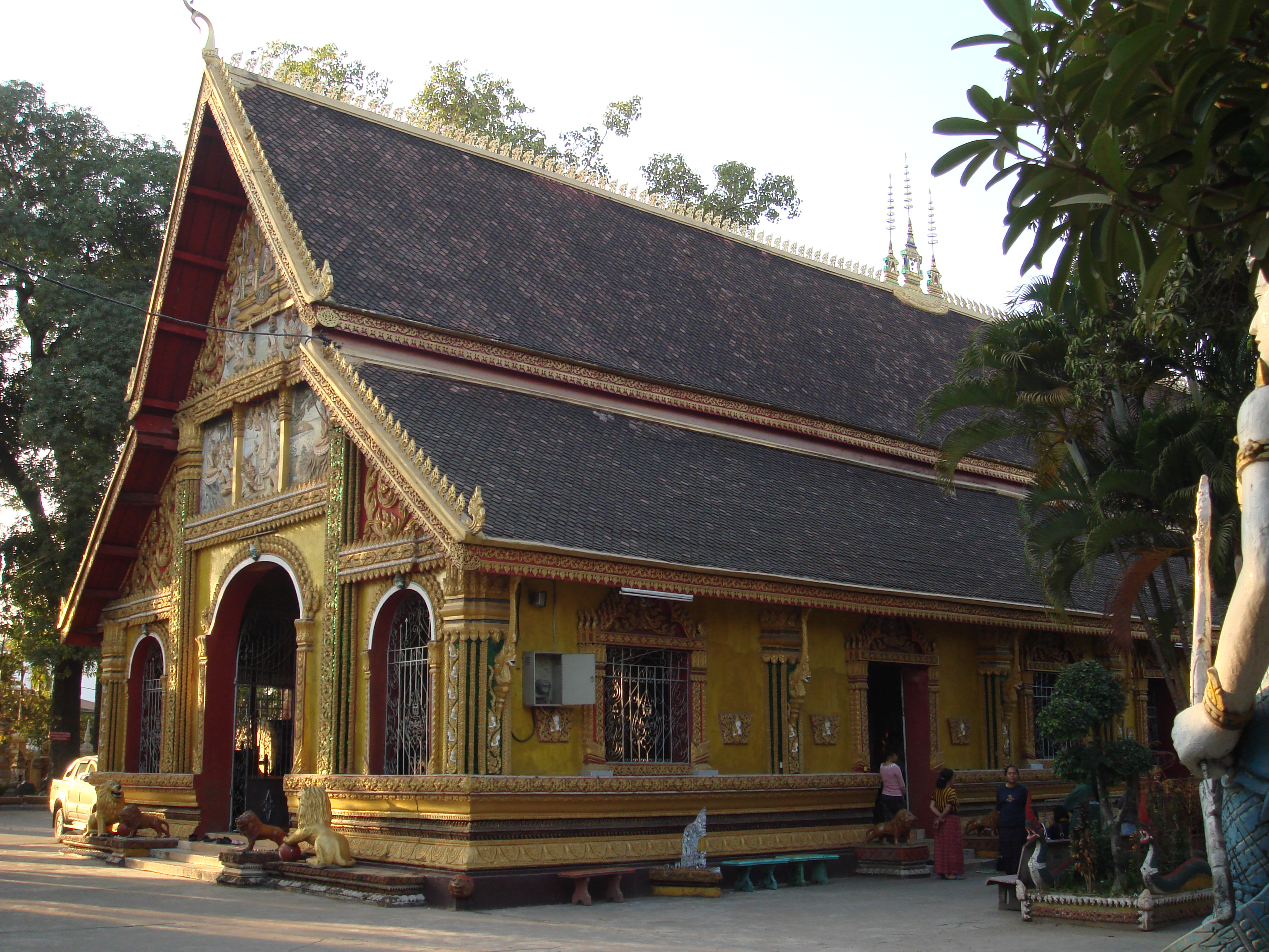 Wat Si Muang monastery in Vientiane (Laos).